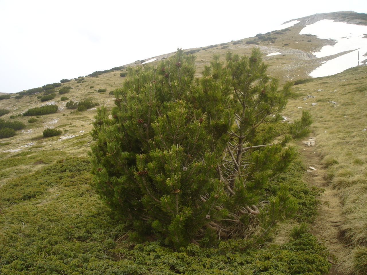 Indigenous (endemic) specie of dwarf pine - "Krivul" on Mokra mountain, Macedonia